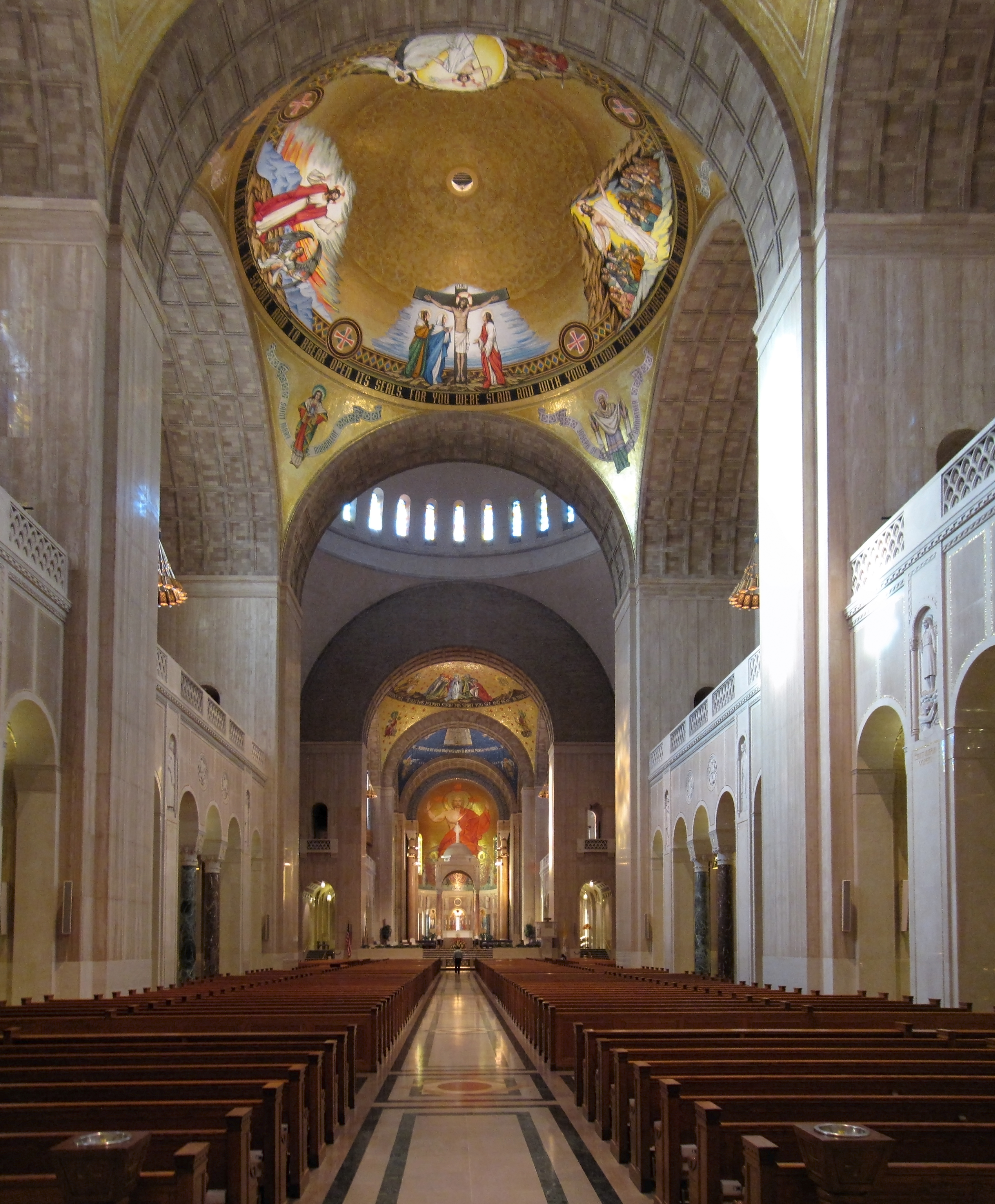 Interior of the Basilica of the National Shrine of the Immaculate Conception in Washington, D.C.